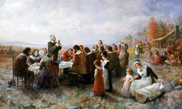 "The First Thanksgiving at Plymouth" (1914) By Jennie A. Brownscombe